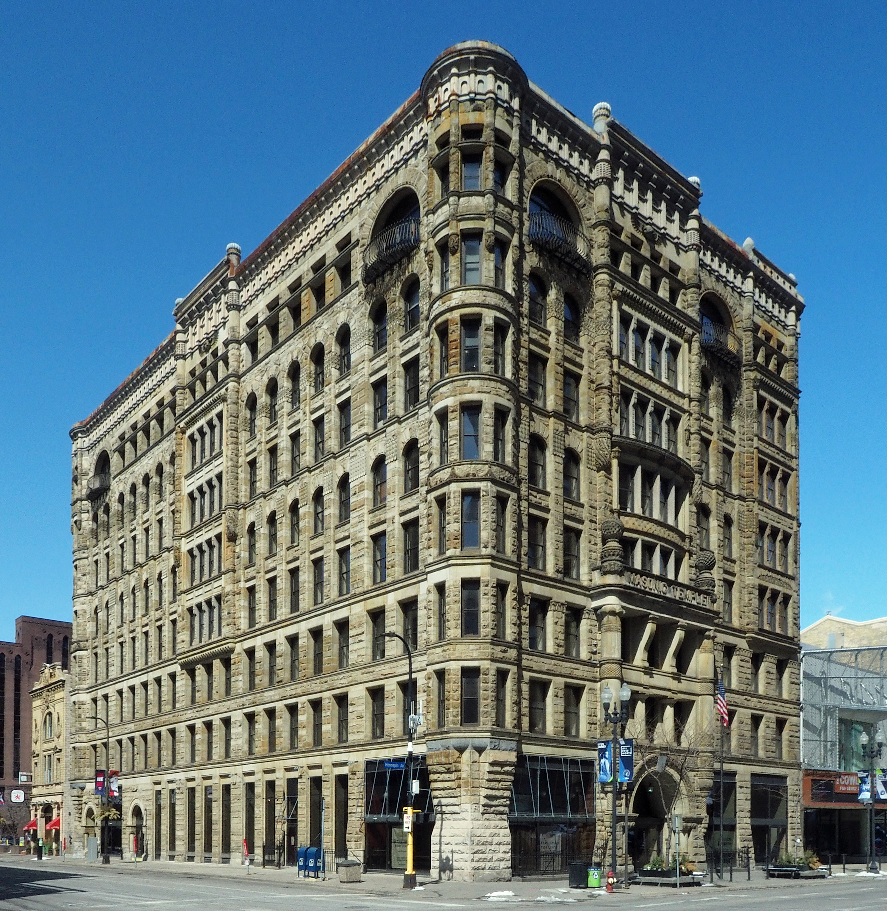 Hennepin Center for the Arts (formerly the Masonic Temple), 528 Hennepin Ave, Minneapolis, Minnesota, USA. Viewed from the south.